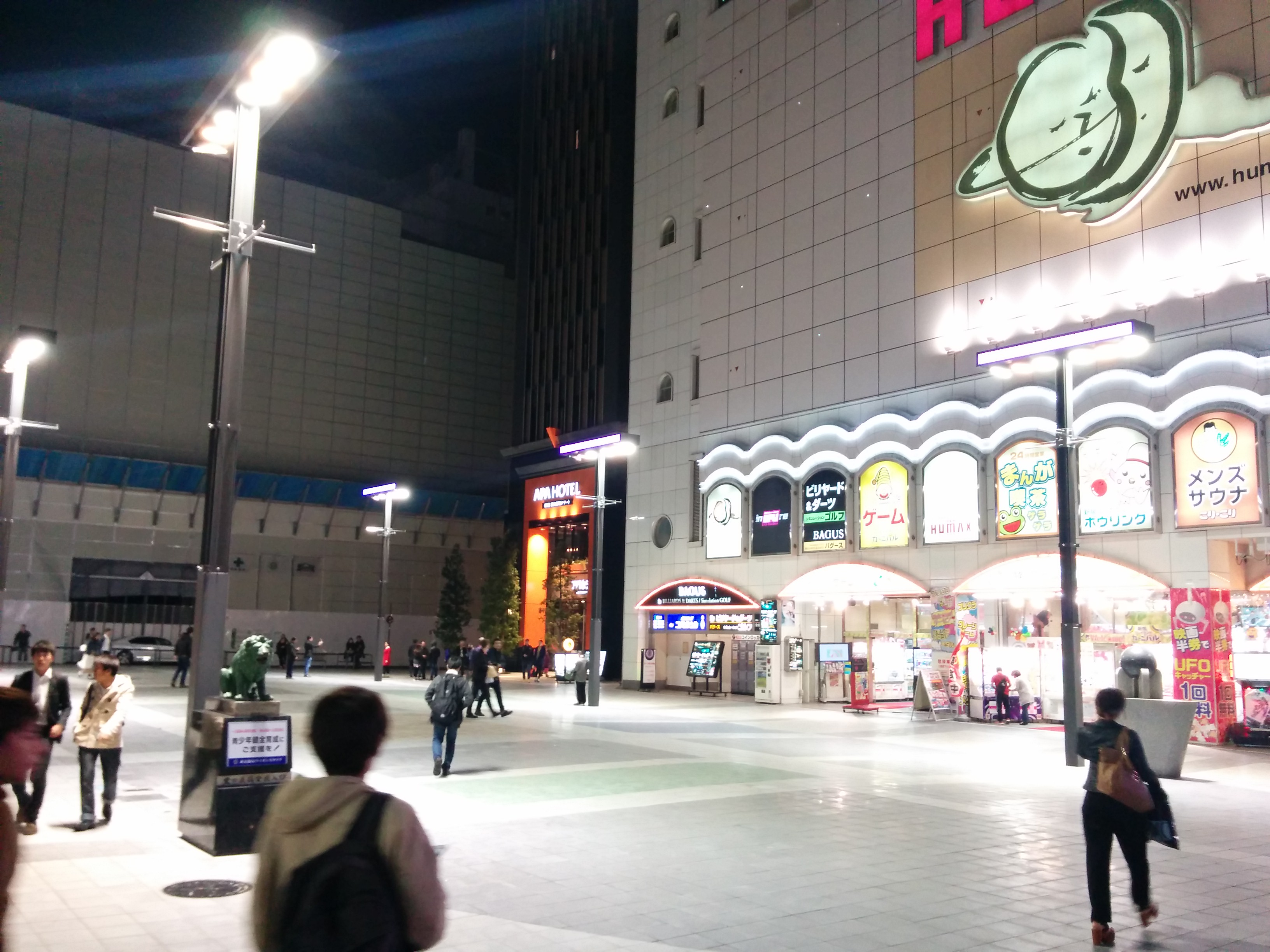 Shortly after renewal